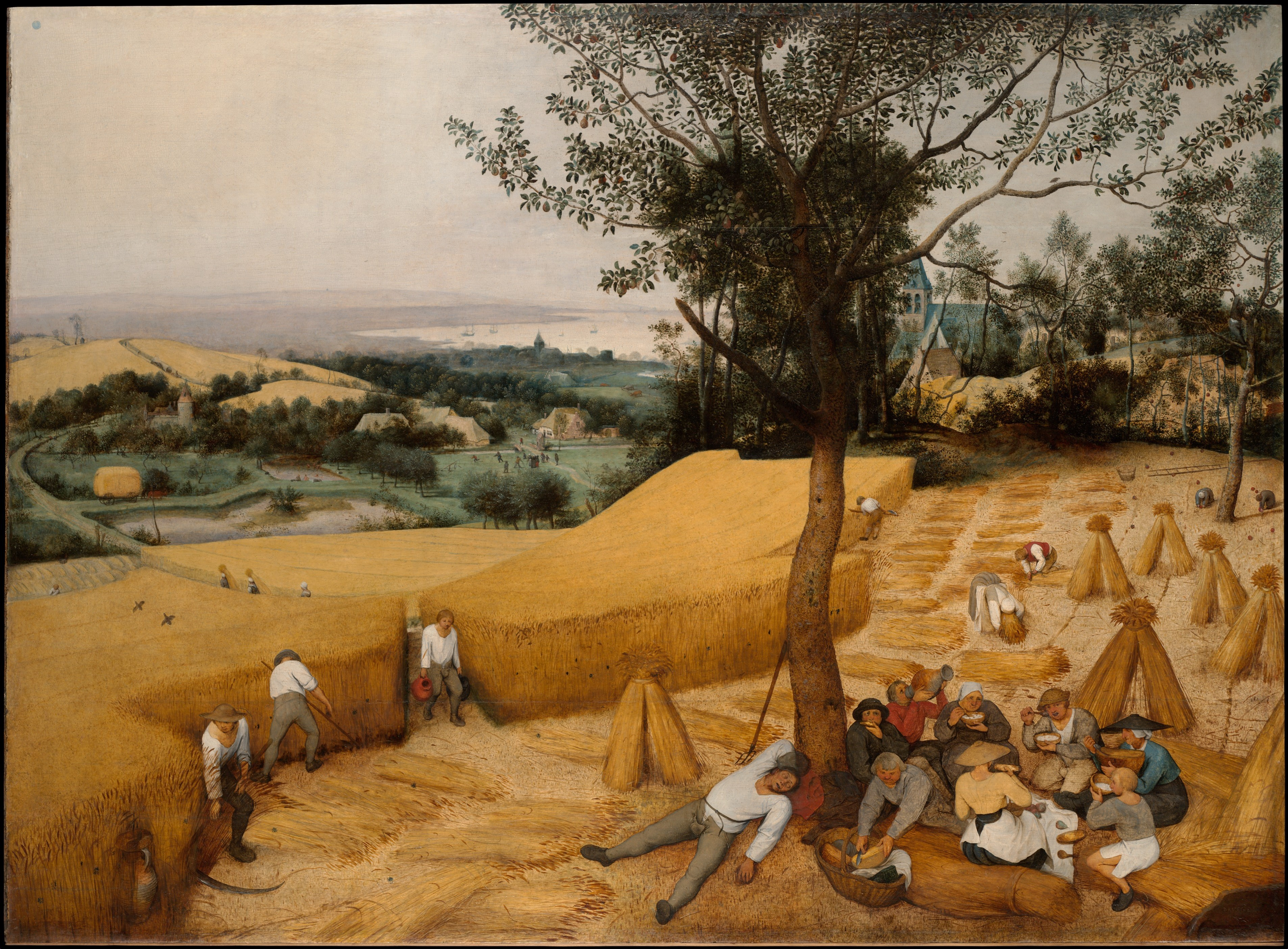 Part of the series The Seasons.